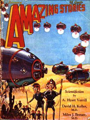 Cover of the pulp magazine Amazing Stories (January 1930, vol. 4, no. 10).